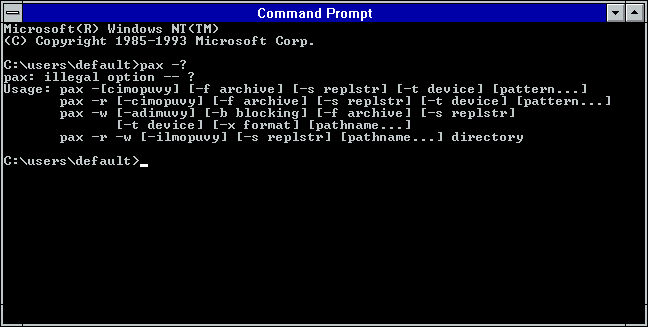 Microsoft Windows NT Version 3.10 (build 528) pax command